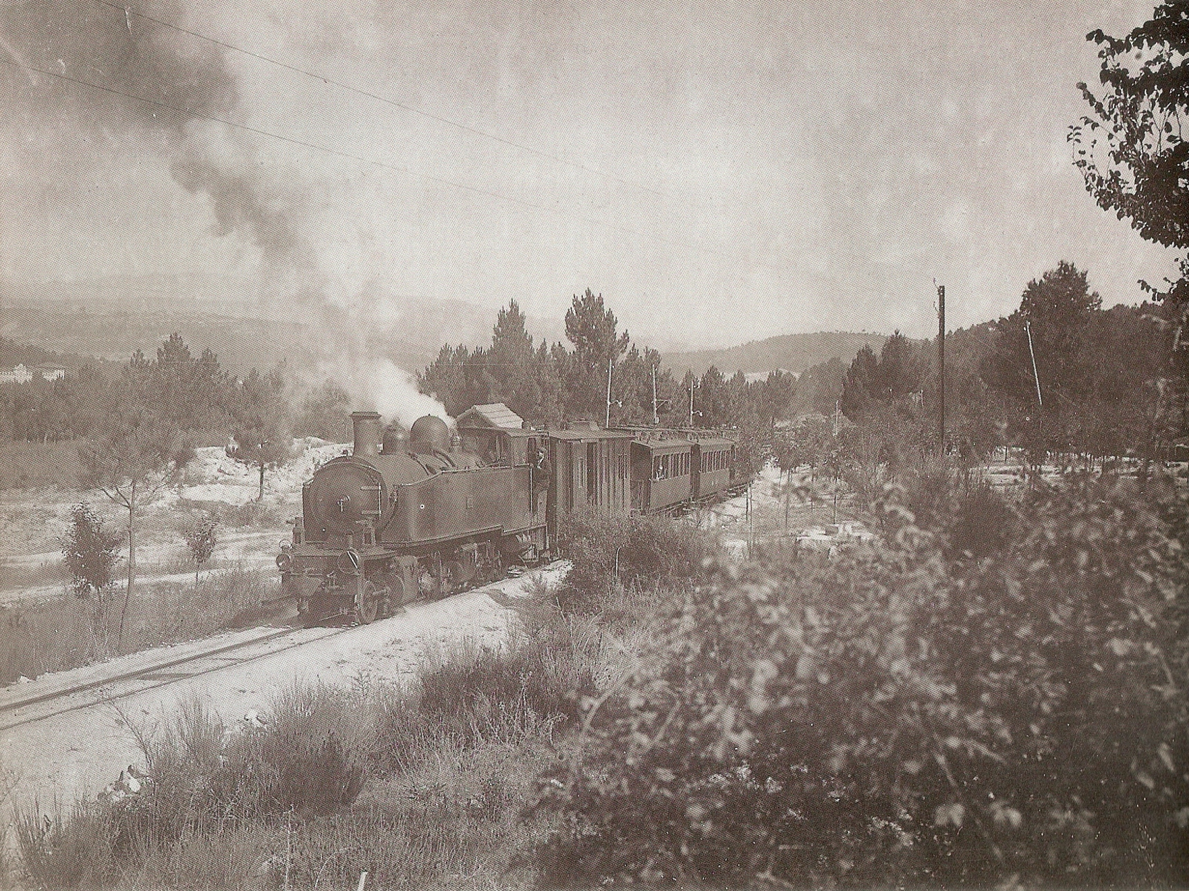 Portuguese narrow gauge train, led by a locomotive of the type E201 - E216. This photograph was originally from the collection of Braamcamp Freire (1849 - 1921).